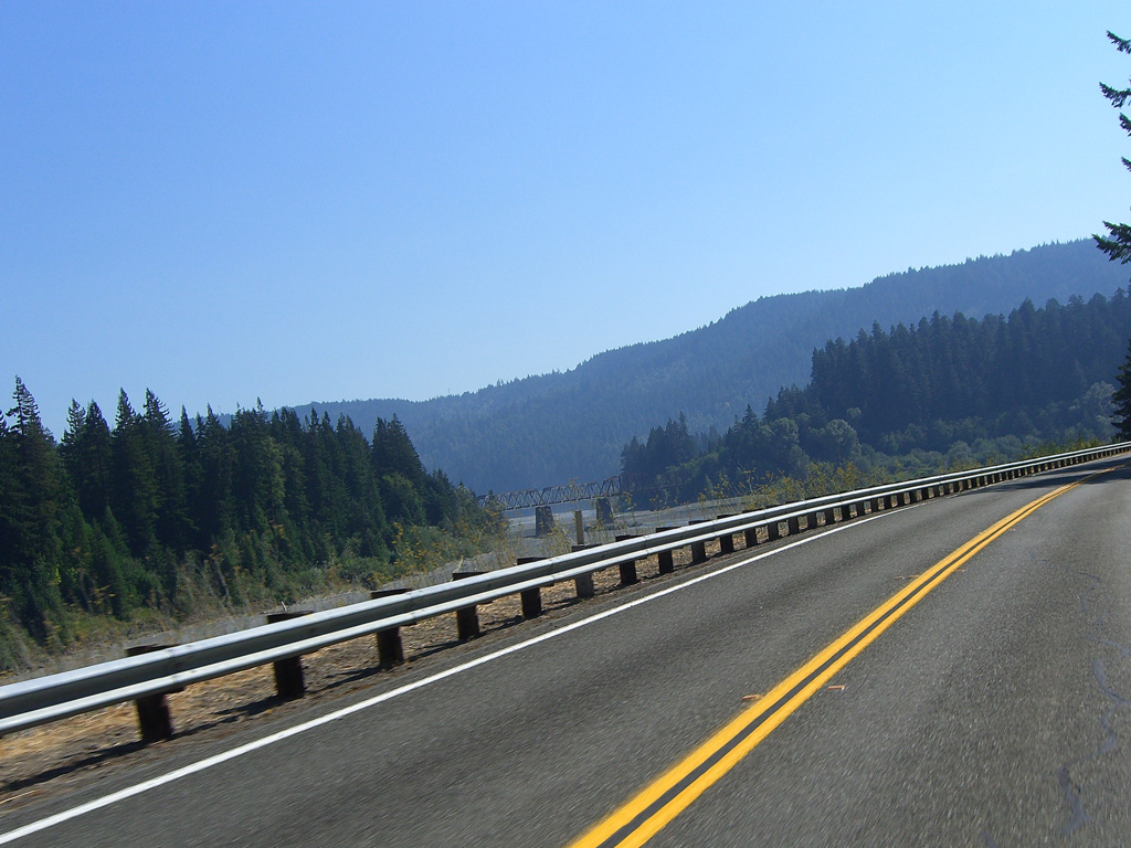 Eel River, as seen while driving on the Avenue of the Giants, California.